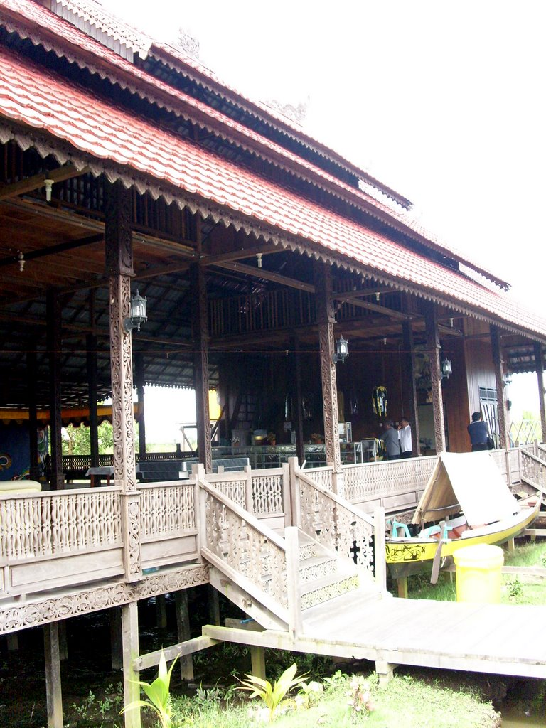 A baloy, traditional house of the Tidung people of East Kalimantan province on Borneo island, Indonesia